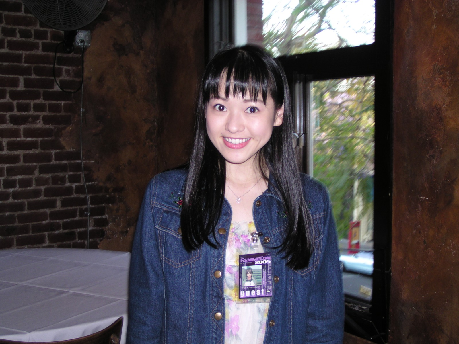 Japanese seiyū Maria Yamamoto at the FanimeCon 2005 Meet the Guests reception in San Jose, CA on 27-May-2005.